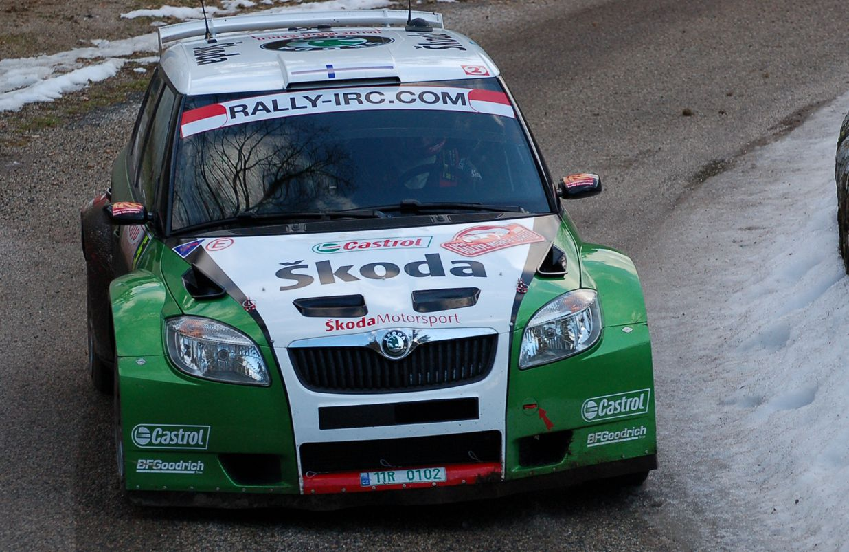 Hanninen-Markkula in Monte-Carlo Rally 2010 Internationnal Rallye Challenge winner 2010